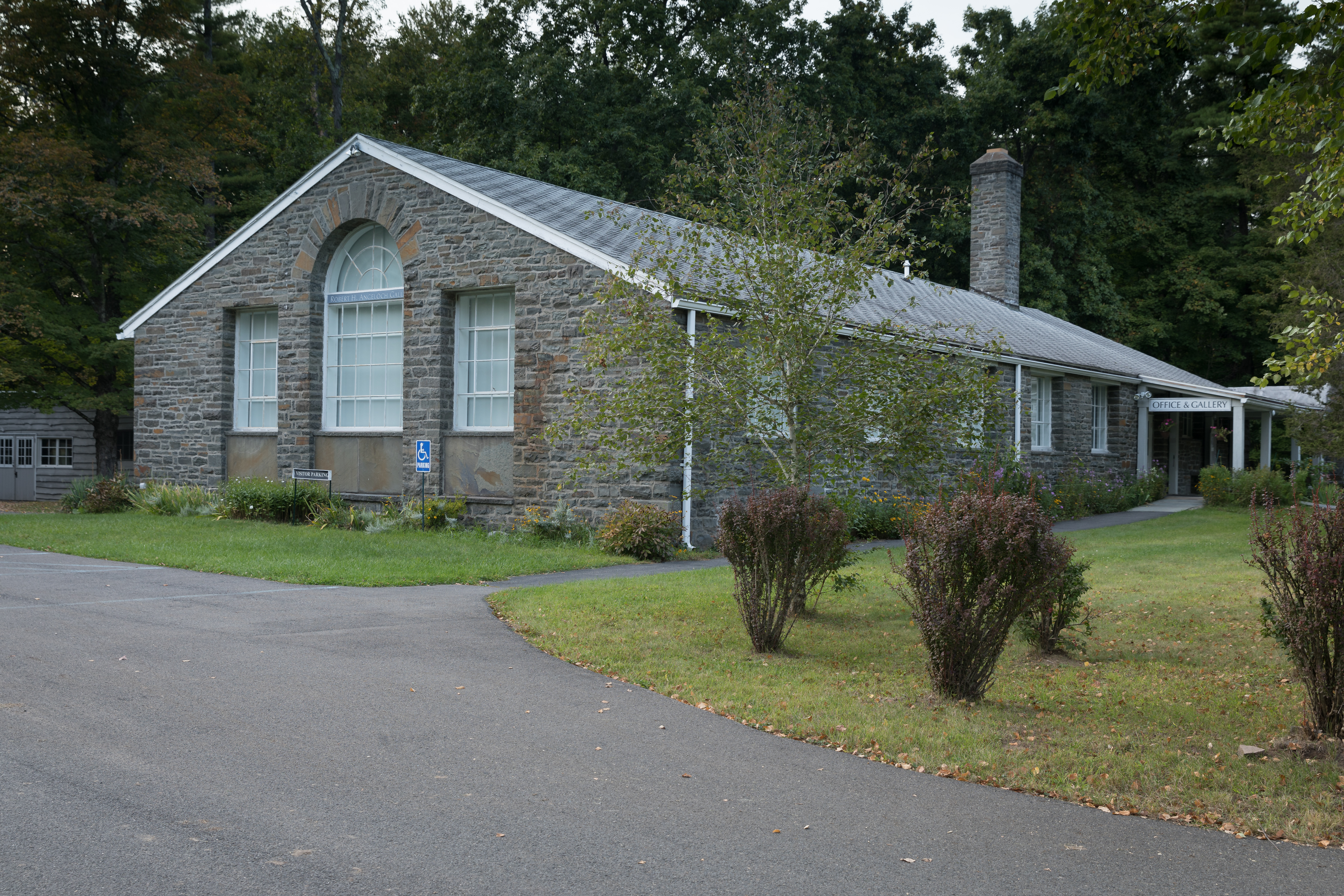 National Youth Administration Woodstock Resident Work Center main building. Now Woodstock School of Art Angeloch Gallery